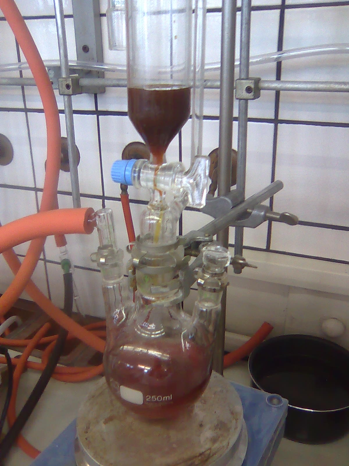 Laboratory preparation of Ferrocene. Photo taken at University of Graz.